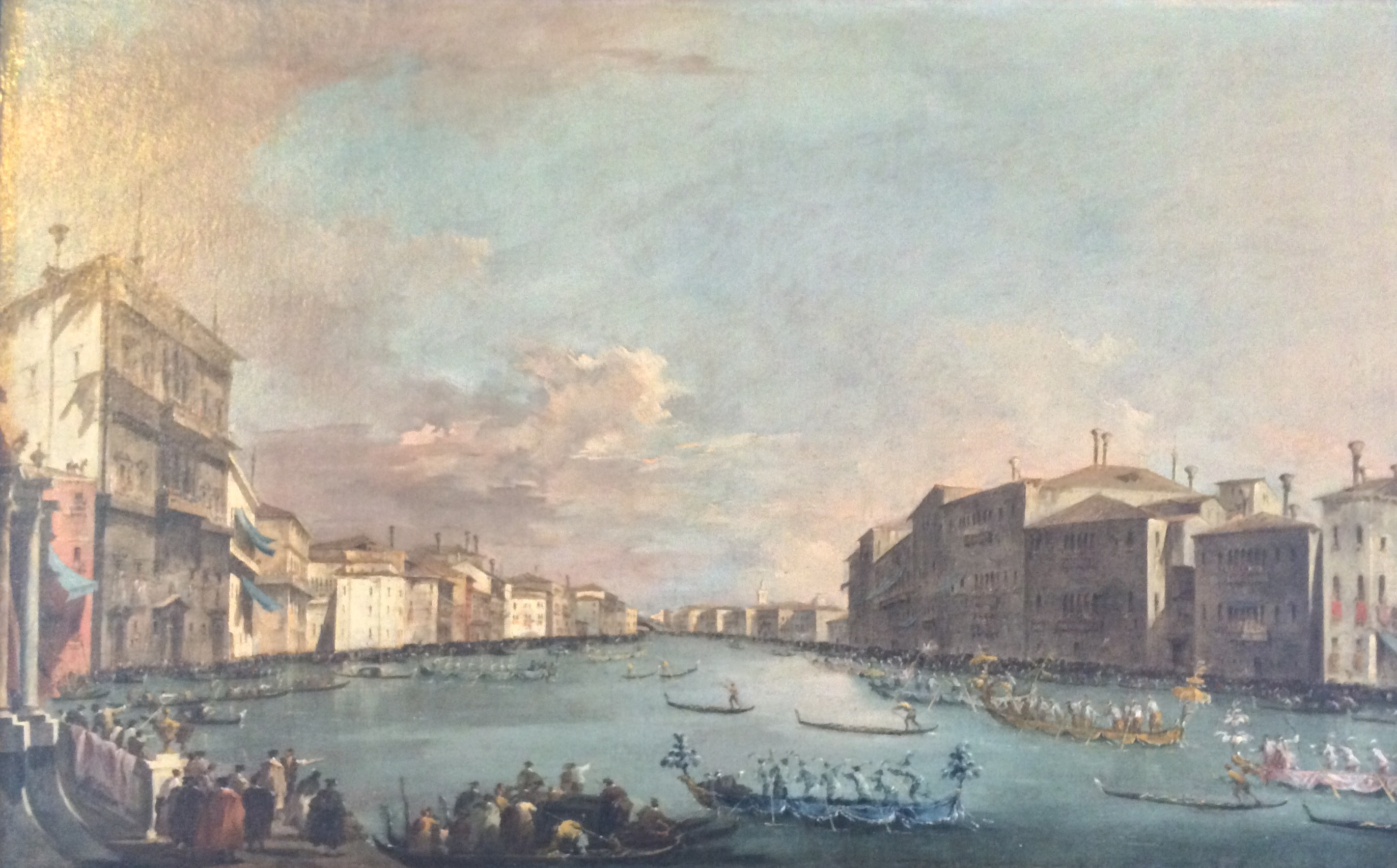 Grand Canal from the Palazzo Balbi. In the distance the Rialto Bridge, bell tower of the San Bartolomeo Church, and dome of the Church of Santi Giovanni e Paolo can be seen. In the foreground, the paleto of the traditional Ventian regatta is taking place, which is why the boats are turning around and the crowds are cheering.